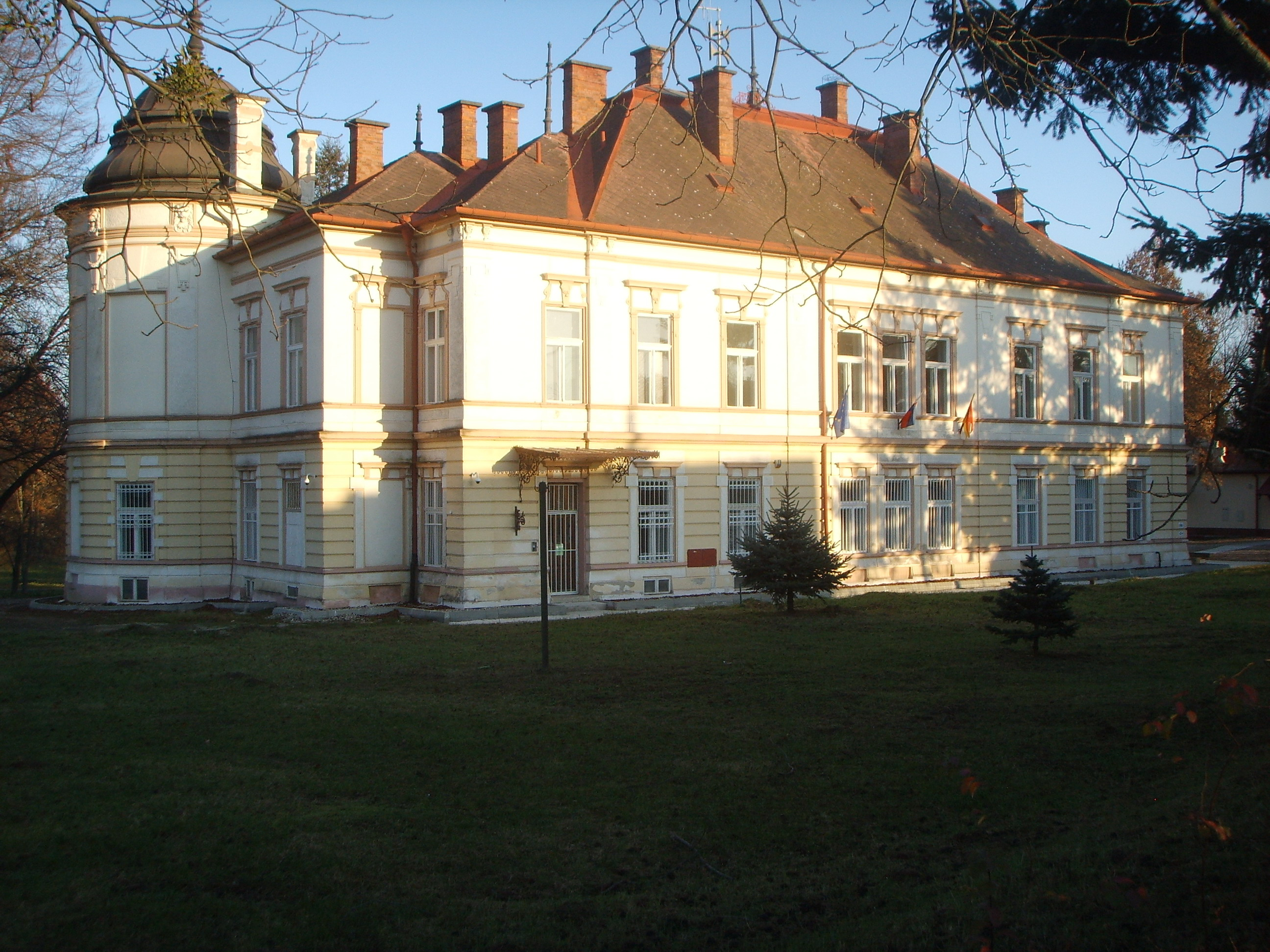 Zichy Manor House, today municipal office Košice - Barca